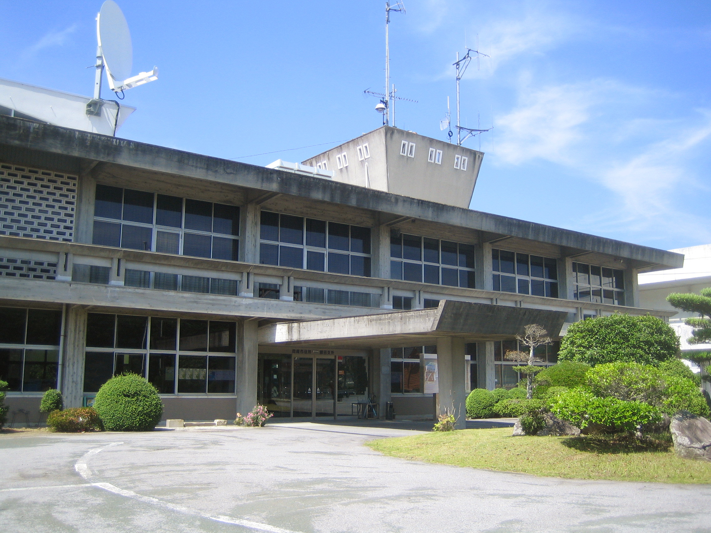 岡崎市役所額田支所（旧額田町役場）。愛知県岡崎市 Okazaki City Nukata Branch Office (岡崎市役所額田支所), located in Okazaki, Aichi, Japan. It is a former Nukata Town Office.